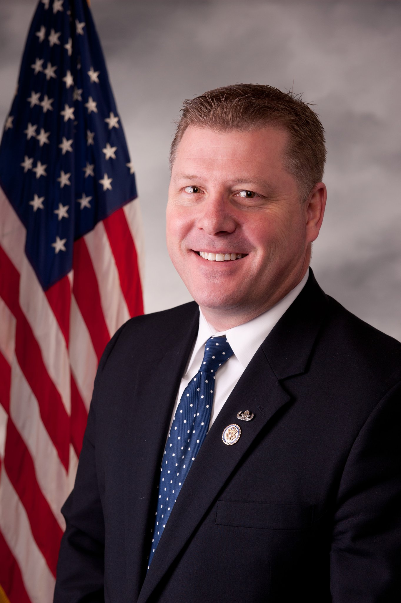 Rick Crawford's official portrait.